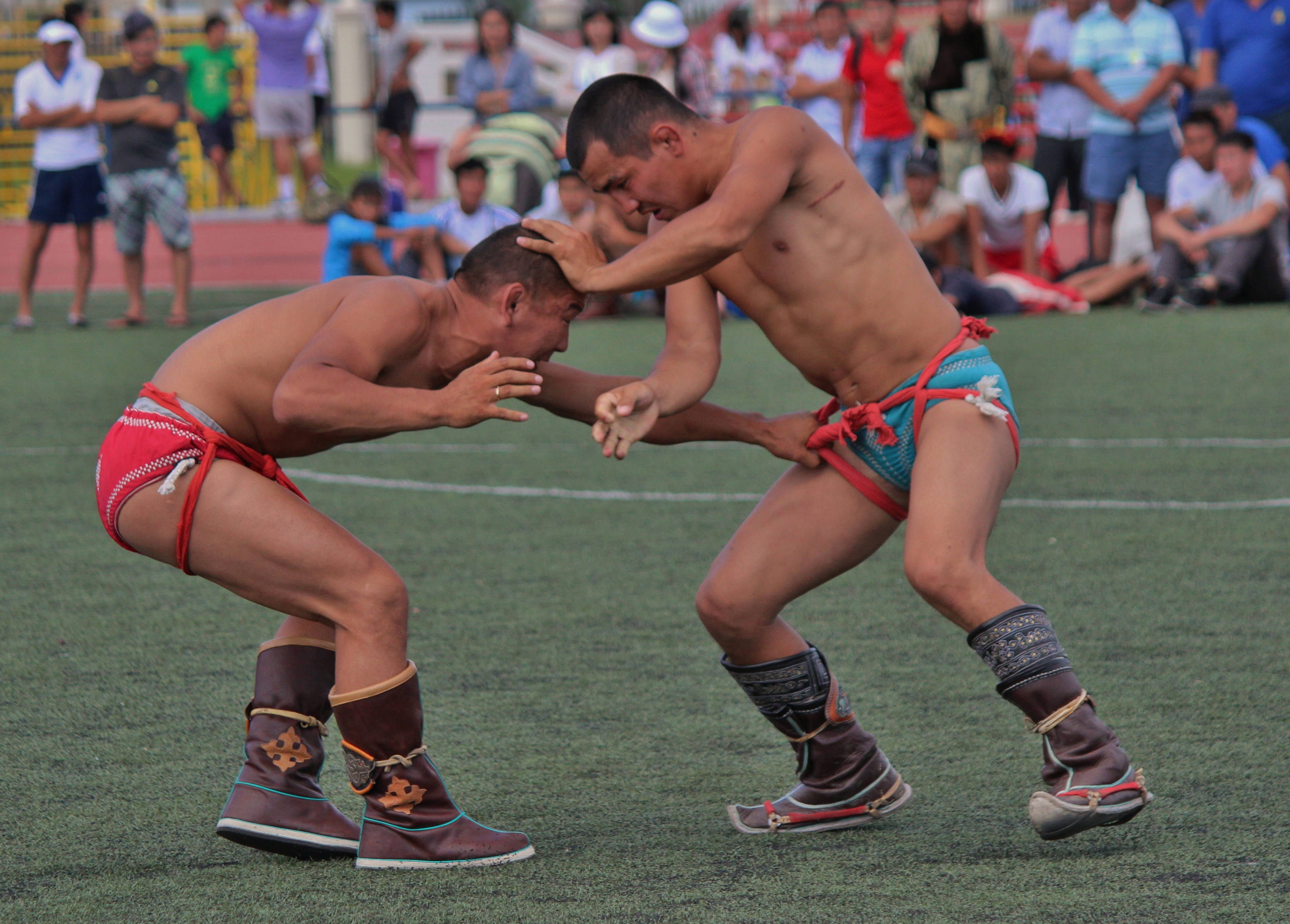 Buryat national wrestling Buhe Barildan. Buryat culture festival "Altargana". Transbaikalia territory, settlement Aginskoye